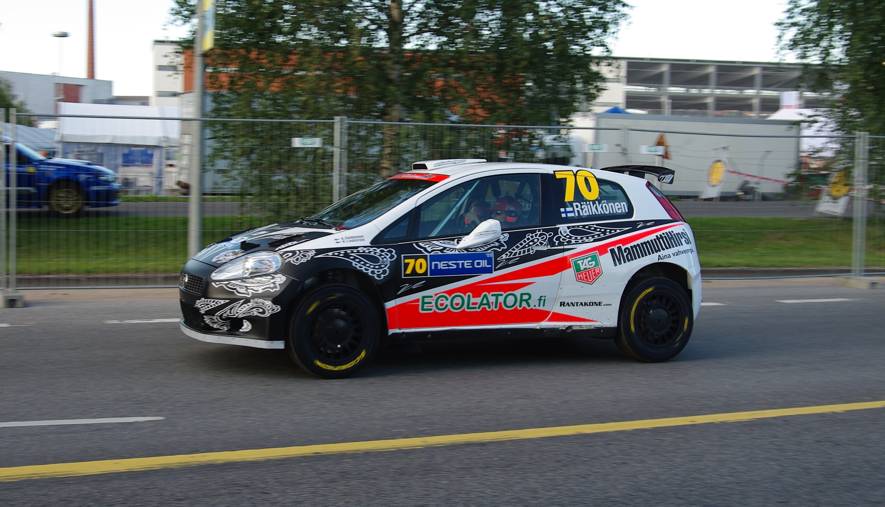 Kimi Räikkönen leaving Service Park in Rally Finland 2009.